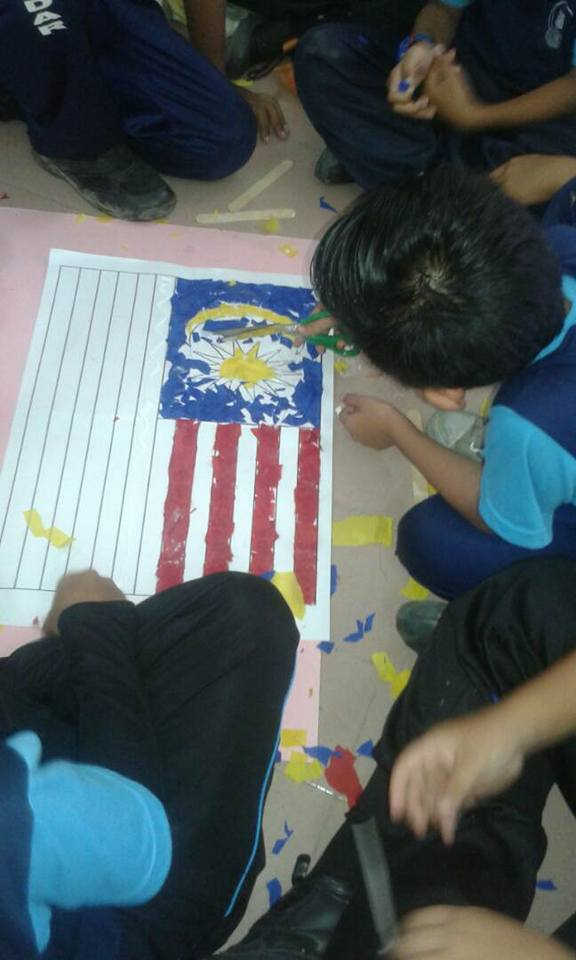 aktiviti merdeka sksb